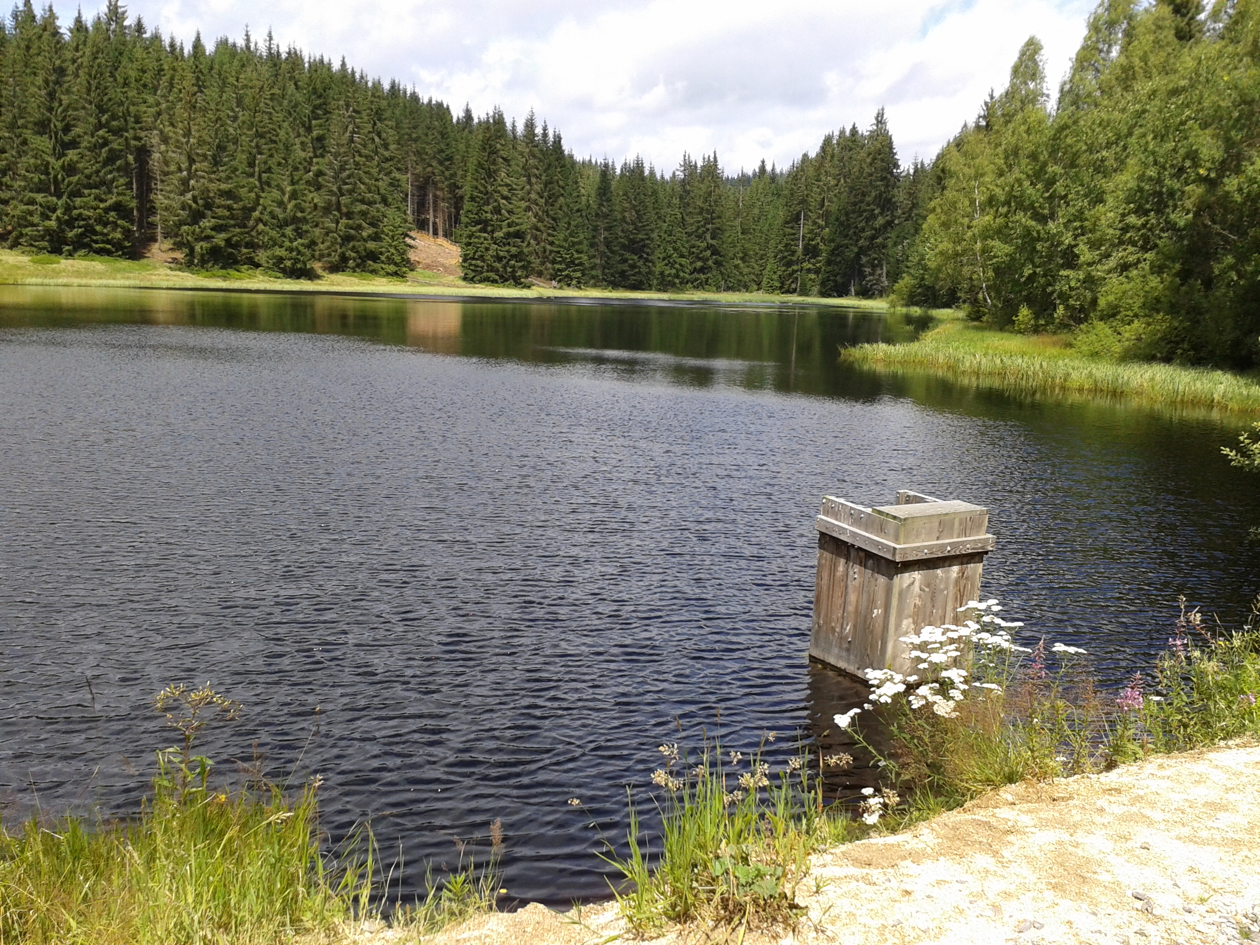 Water reservoir (Splash dam) Žďárské (Žďárecké) is a water tank that served to improve the situation during floating the wood from nearby forests. Located in cadastral "Horní Světlá Hora", 6 km northwest of the "Strážný" in Šumava (Czech Republic) at an altitude of 960 meters above sea level. Area of the reservoir is 1.57 ha.